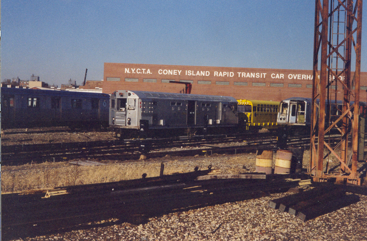 Faked money train. Former R21/R22 car rebuilt for use in the film Money Train from 1995. After production, the car was donated to the New York City Transit Museum.The actual money trains resembled a normal maintenance train painted yellow and black. they were retired in 2006.